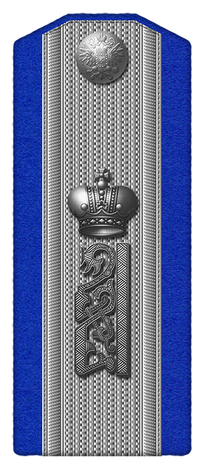 Podhorunzhyi (OR8) of Russian Orenburg 1st Cossack regiment